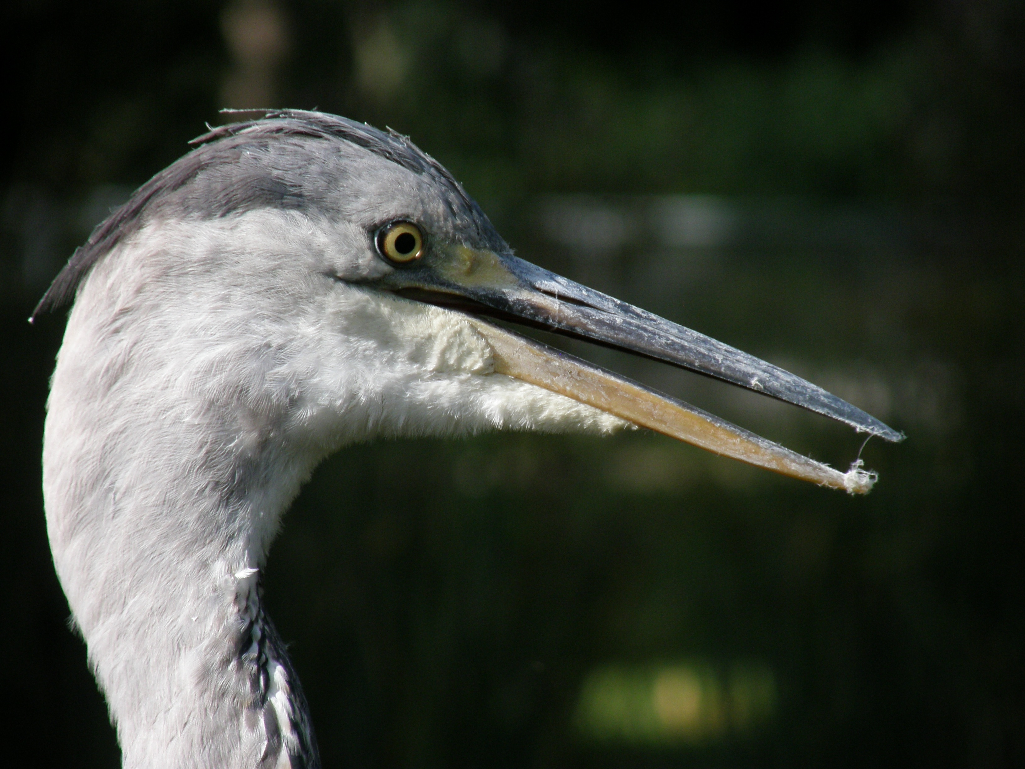 grey heron, head